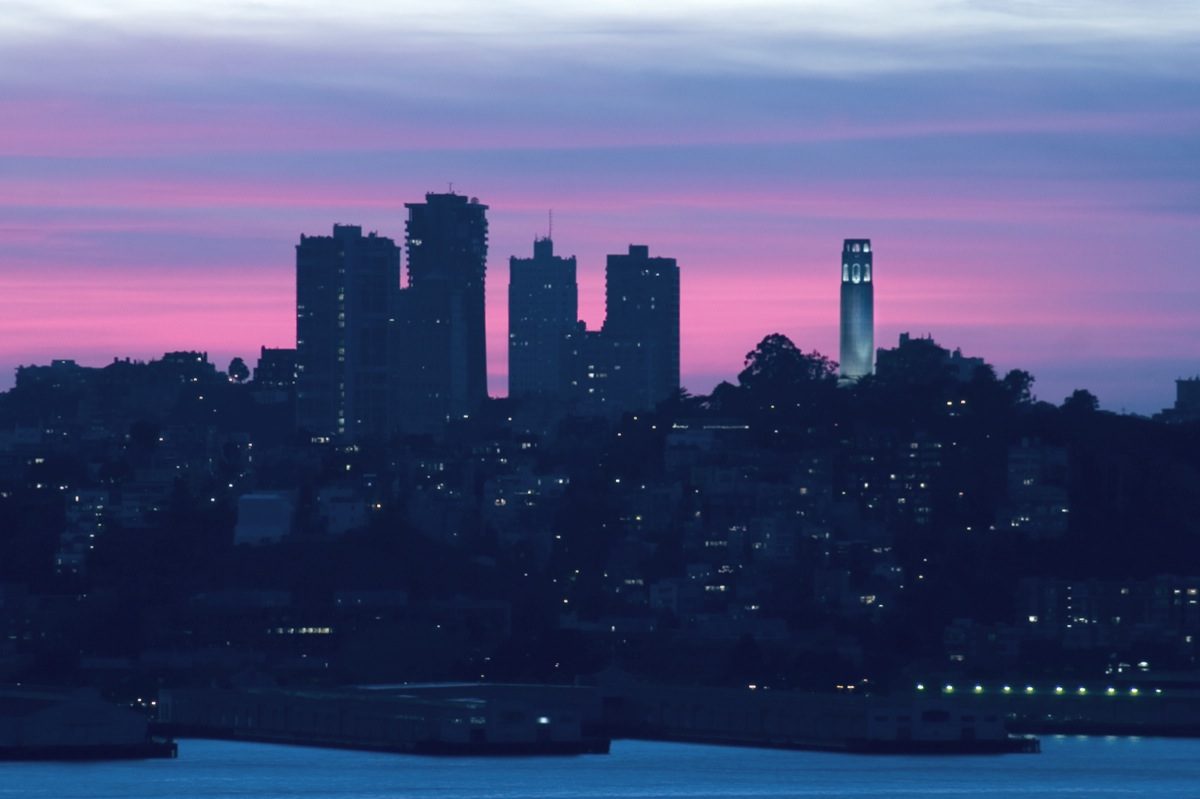 Early evening shot of the Coit Tower and buildings on Telegraph Hill, with the San Francisco Pier on the foreground